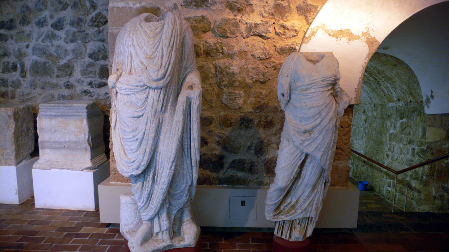 Roman statues in the Archaeological Museum of Ibiza (Spain). These two sculptures come from the renaissance gate of the walls of Ibiza where two copies have been placed.